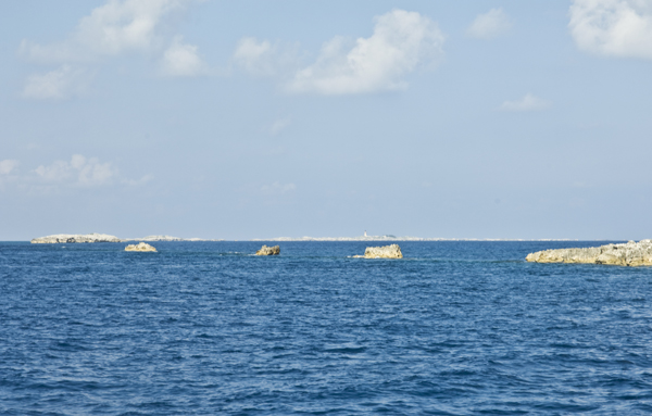 View of the Elbow Cays, part of the Cay Sal Bank in the The Bahamas. The deteriorating lighthouse of North Elbow Cay can be seen in the background. Note: The above description is by the uploader, Lithium6ion, and has not been endorsed by the author.